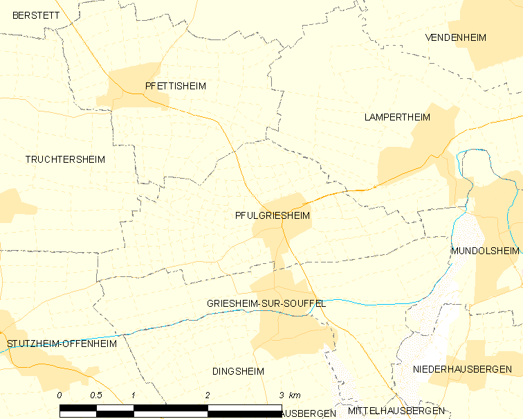 Map of French municipality